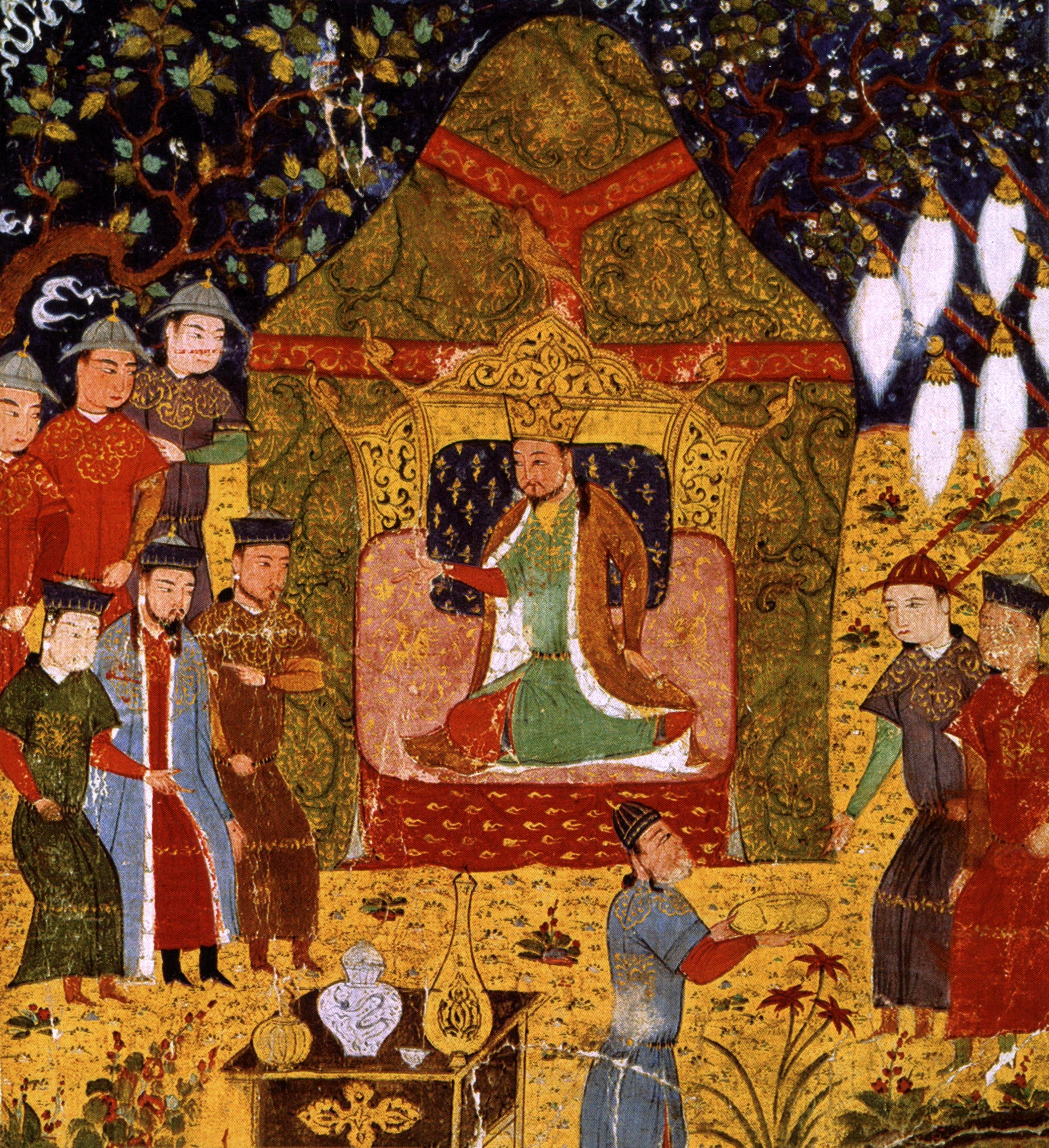 In the spring of 1206, Genghis Khan ascended the throne in the Yeke Quriltay in the source region in the Onan river . Jami' al-tawarikh, Rashid al-Din.